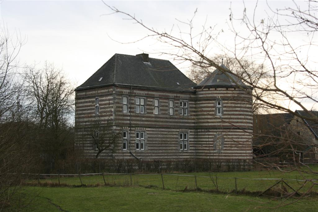 Picture from Castle Bongard in Bocholtz, Netherlands. Taken from the park in Bocholtz.